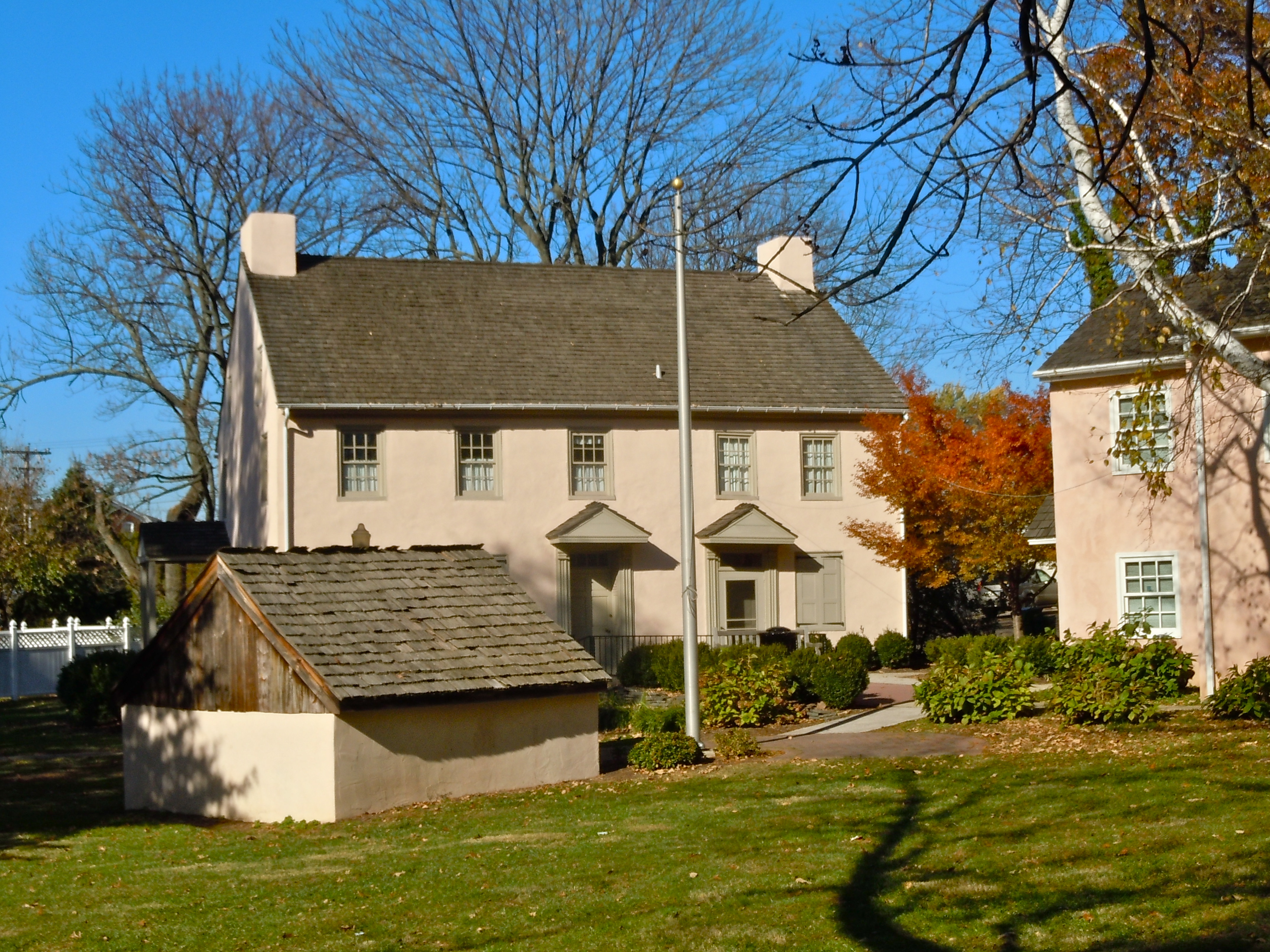 Jenkins Homestead on the NRHP since September 15, 1977 . At 137 Jenkins Avenue, Lansdale, Montgomery Coounty, Pennsylvania. Next door to the Lansdale historical society.